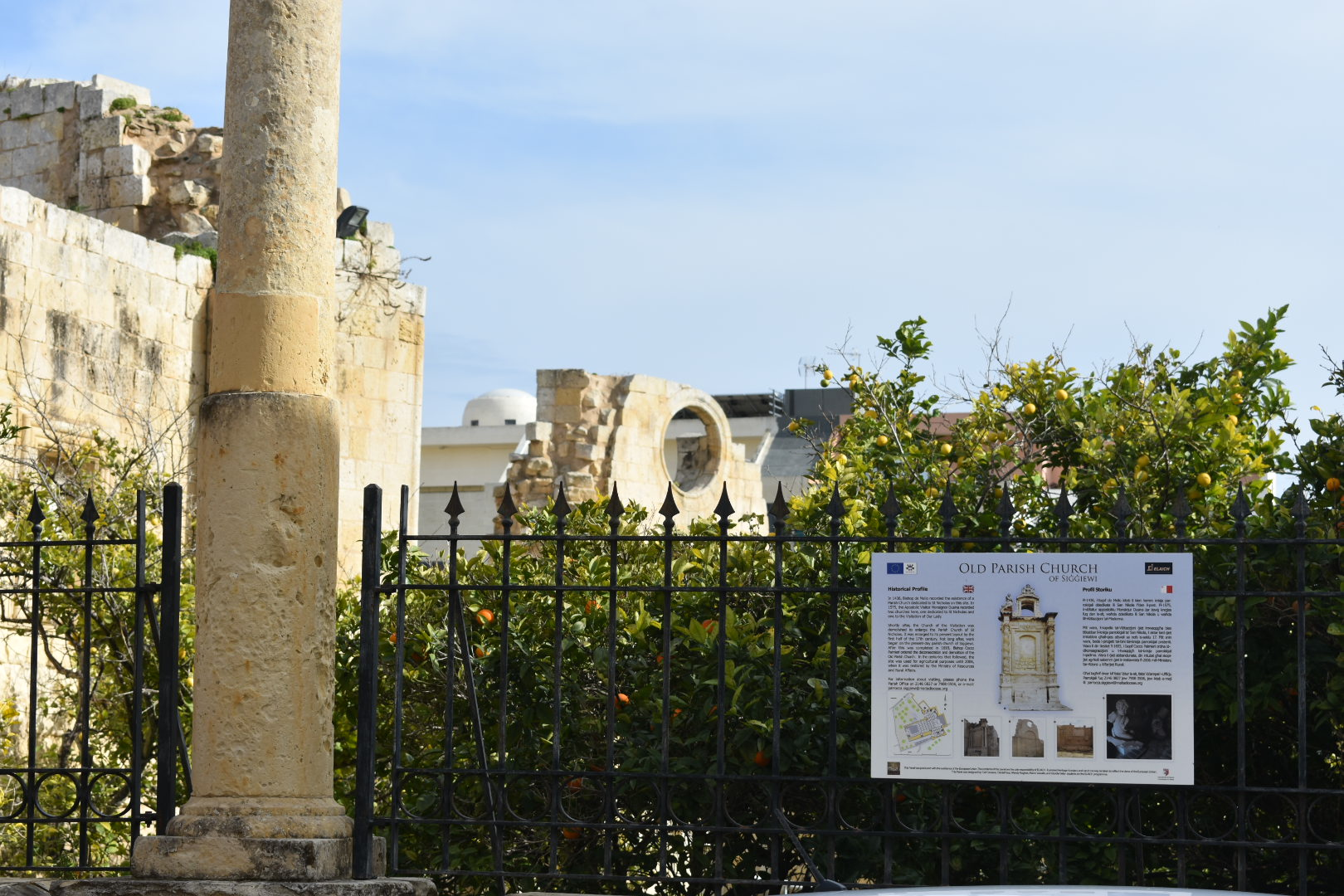 Siggiewi in 2018